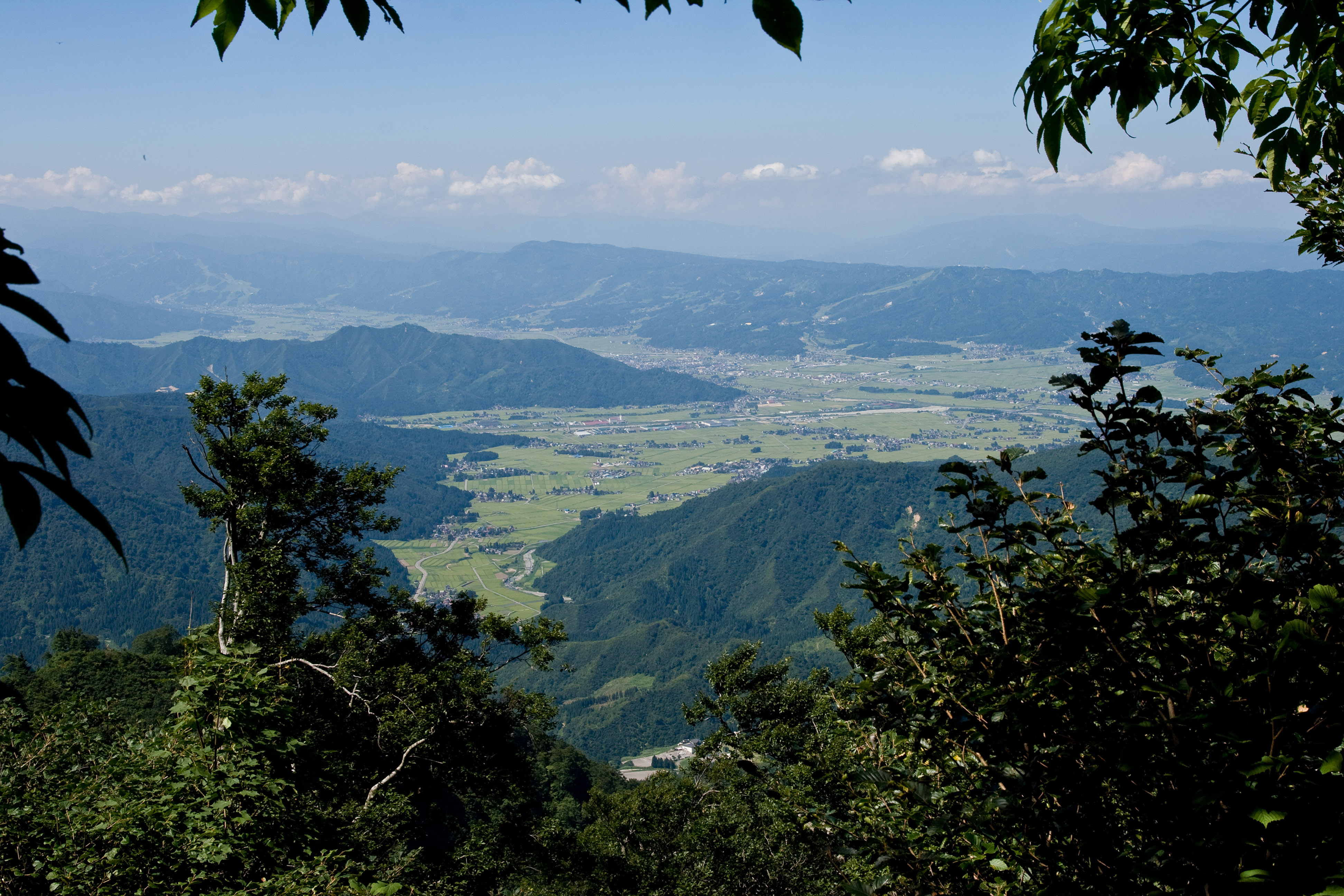 Uonuma Basin as seen from Mt.Hakkai, Niigata Pref., Honshu, Japan.